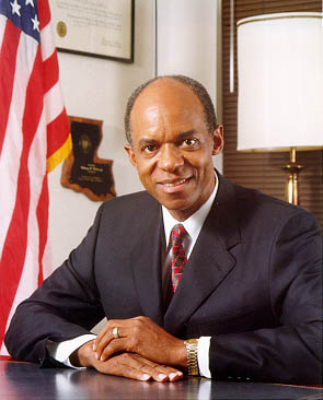 Official photograph of William Jefferson, U.S. Congressman from Louisiana.